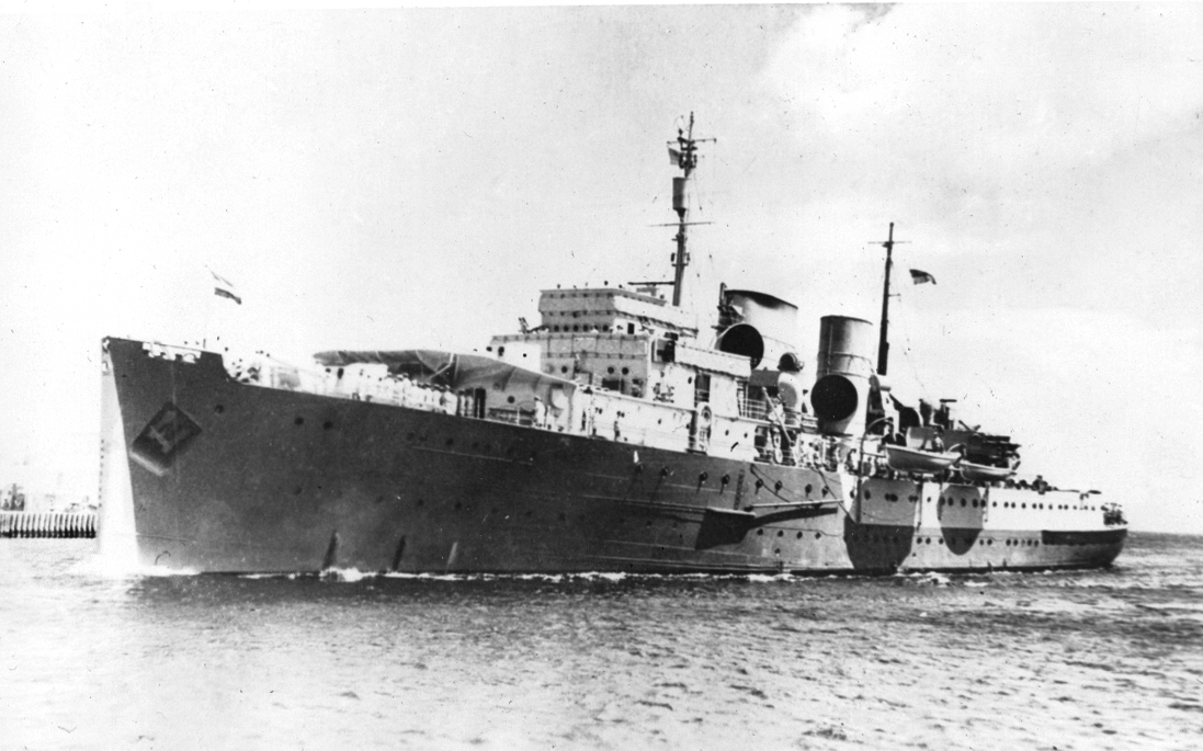 Scanned from Royal Canadian Naval Photo, Original Negative- Unknown.